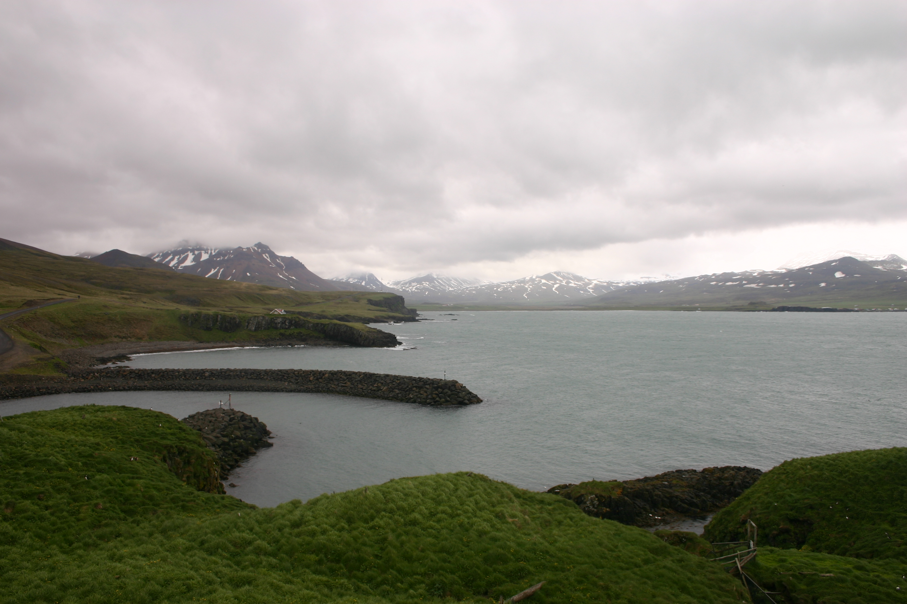 Neskaupstaður, Iceland. June 2008.